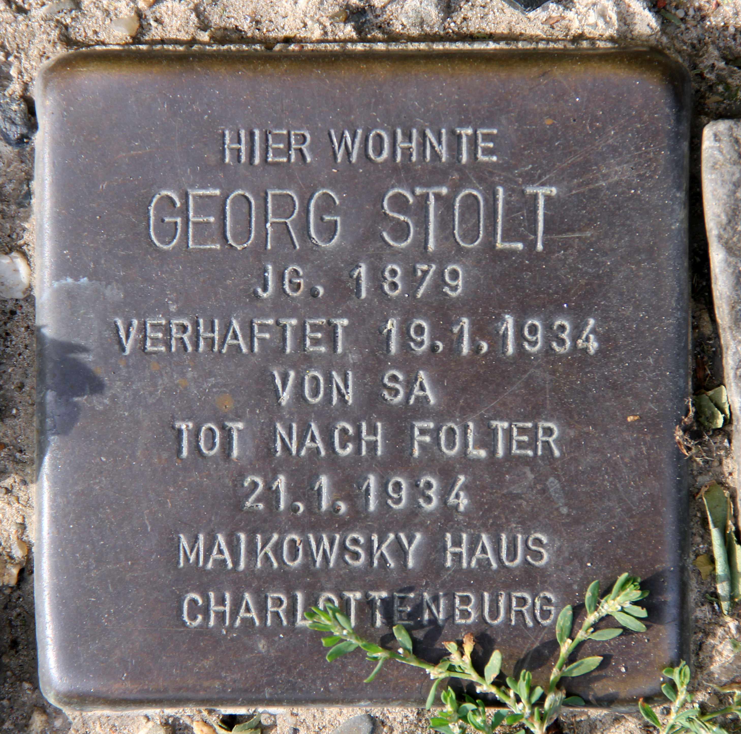 "Stolperstein" (stumbling block), Georg Stolt, Am Friedrichshain 14, Berlin-Prenzlauer Berg, Germany